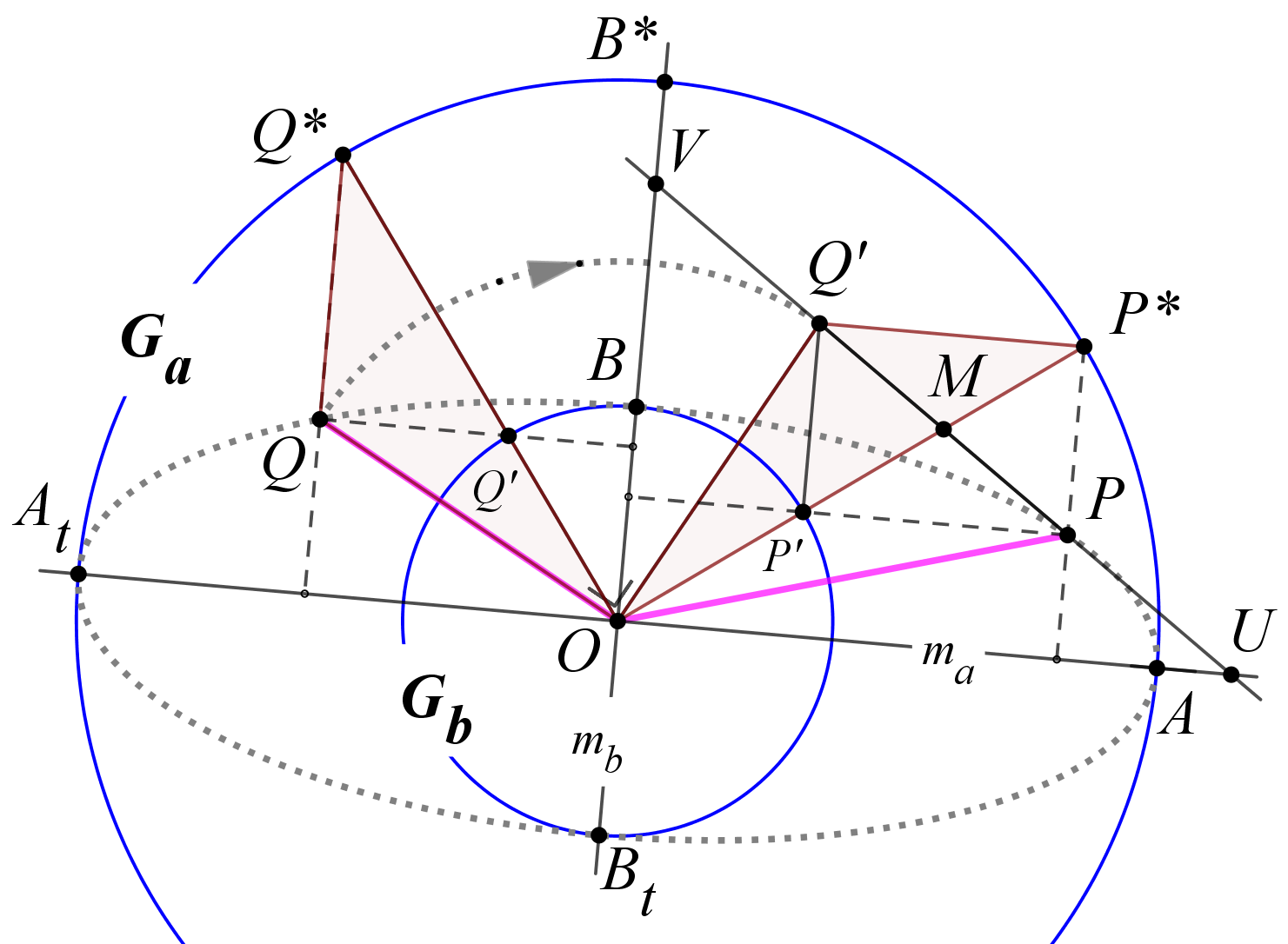 Data, description, proof of Rytz construction